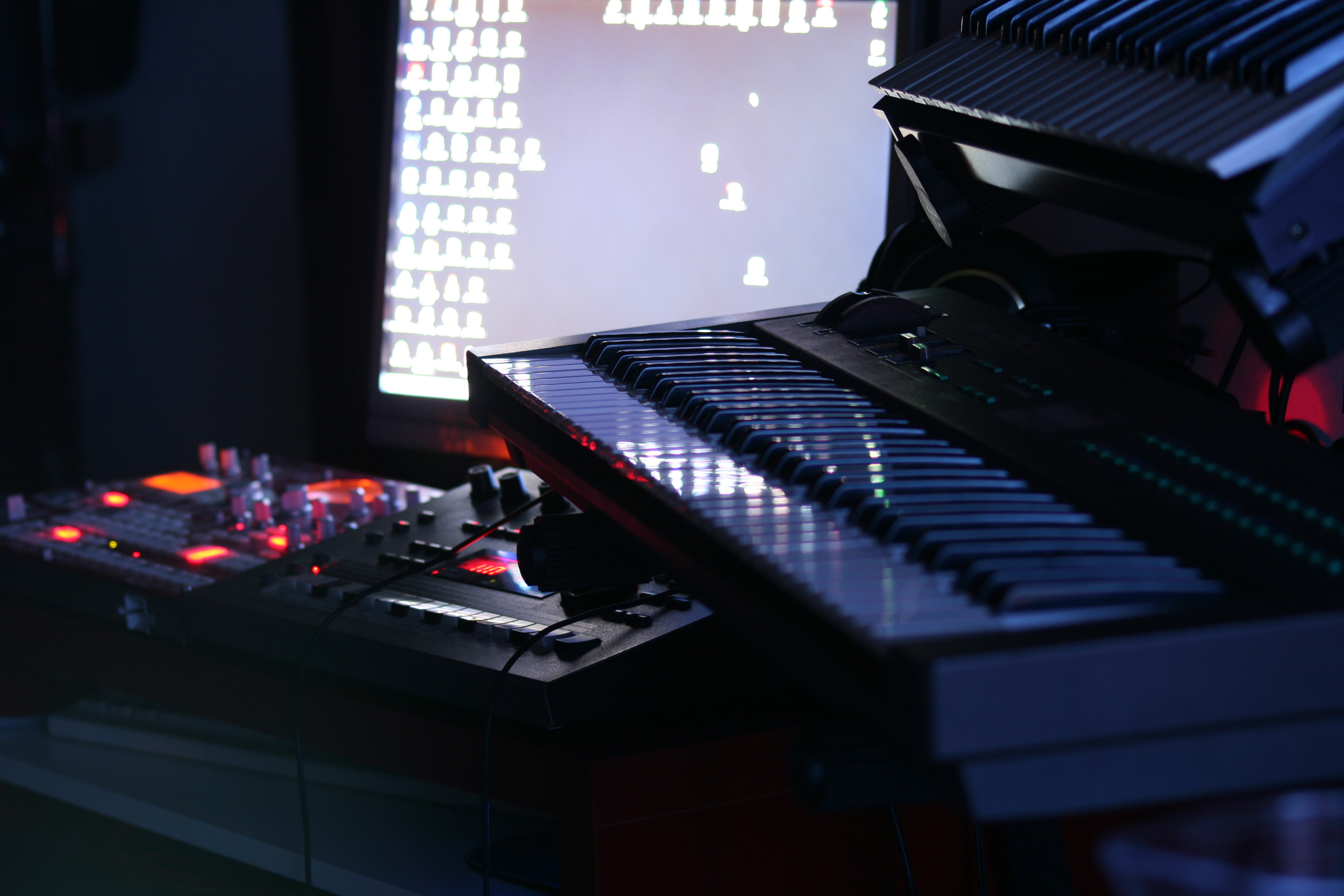 non ritoccata / no postProd right to left Waldorf Micro Q keyboard Yamaha DX-21 Roland MC-303 Groovebox Korg Electribe ESX